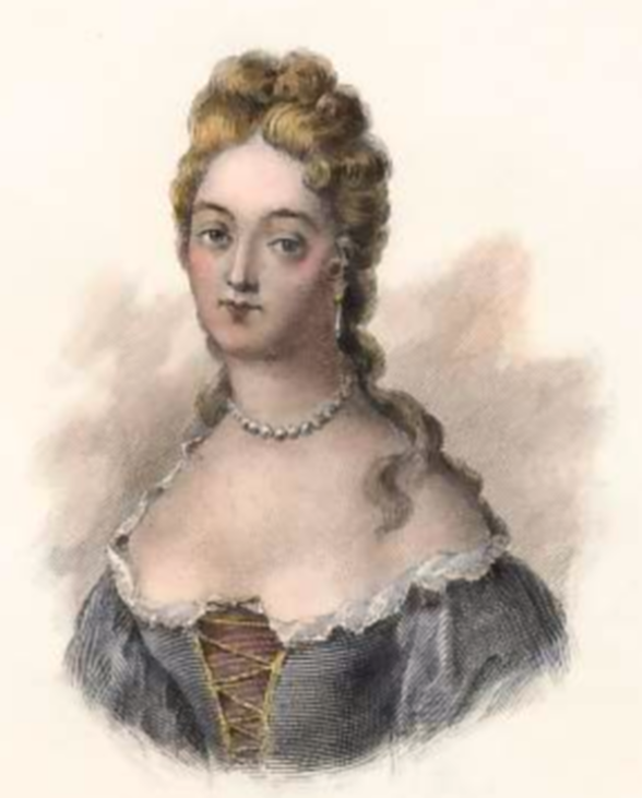 Colour engraving of Marie Émilie de Joly "Mademoiselle de Choin".